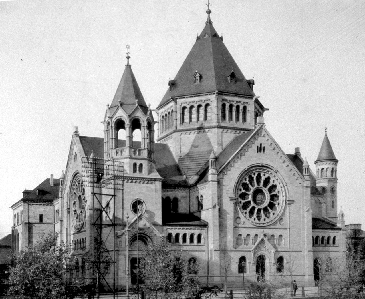 Synagogue of quai Kleber in Strasbourg (Elsass), burnt by French nazis in 1940